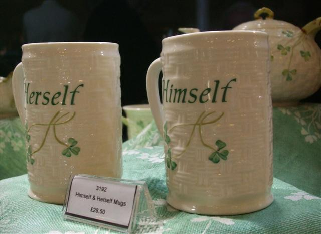 Herself / Himself One of the brilliant products at Belleek Pottery in County Fermanagh. When the supply of local clay ran out, it was imported from Cornwall. They have a policy that no seconds are sold. All defective wares are destroyed immediately if they fail the quality control test.